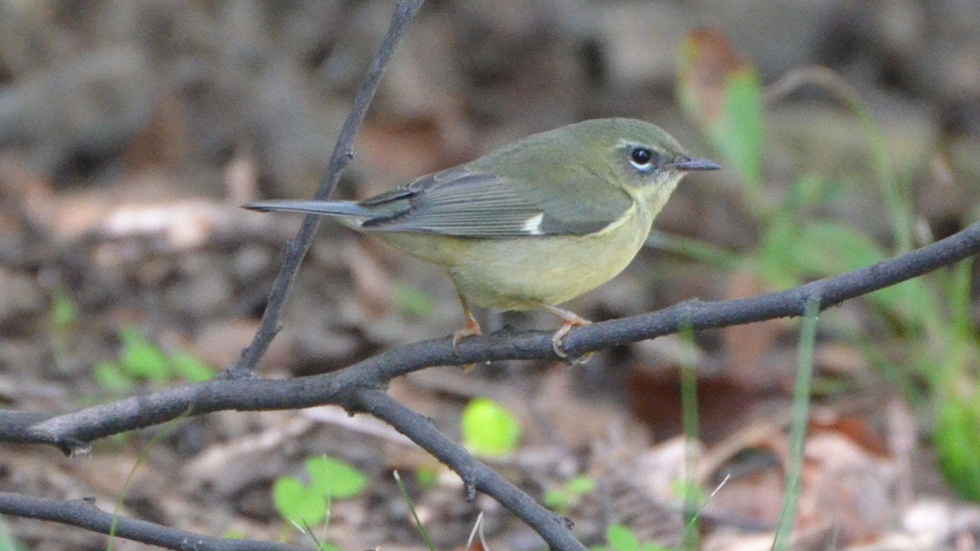 Tower Grove Park 9/28/12